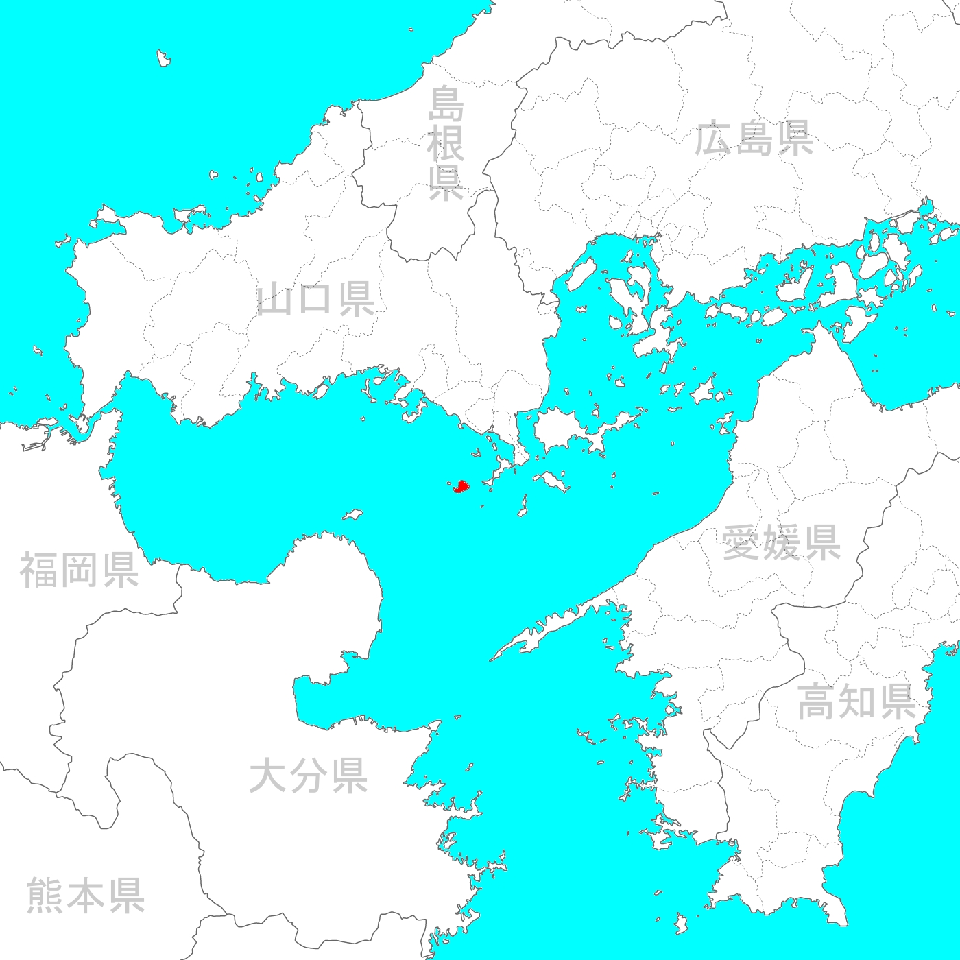 This is the map of iwai-Island or 祝島 in yamaguchi prefecture in Japan.